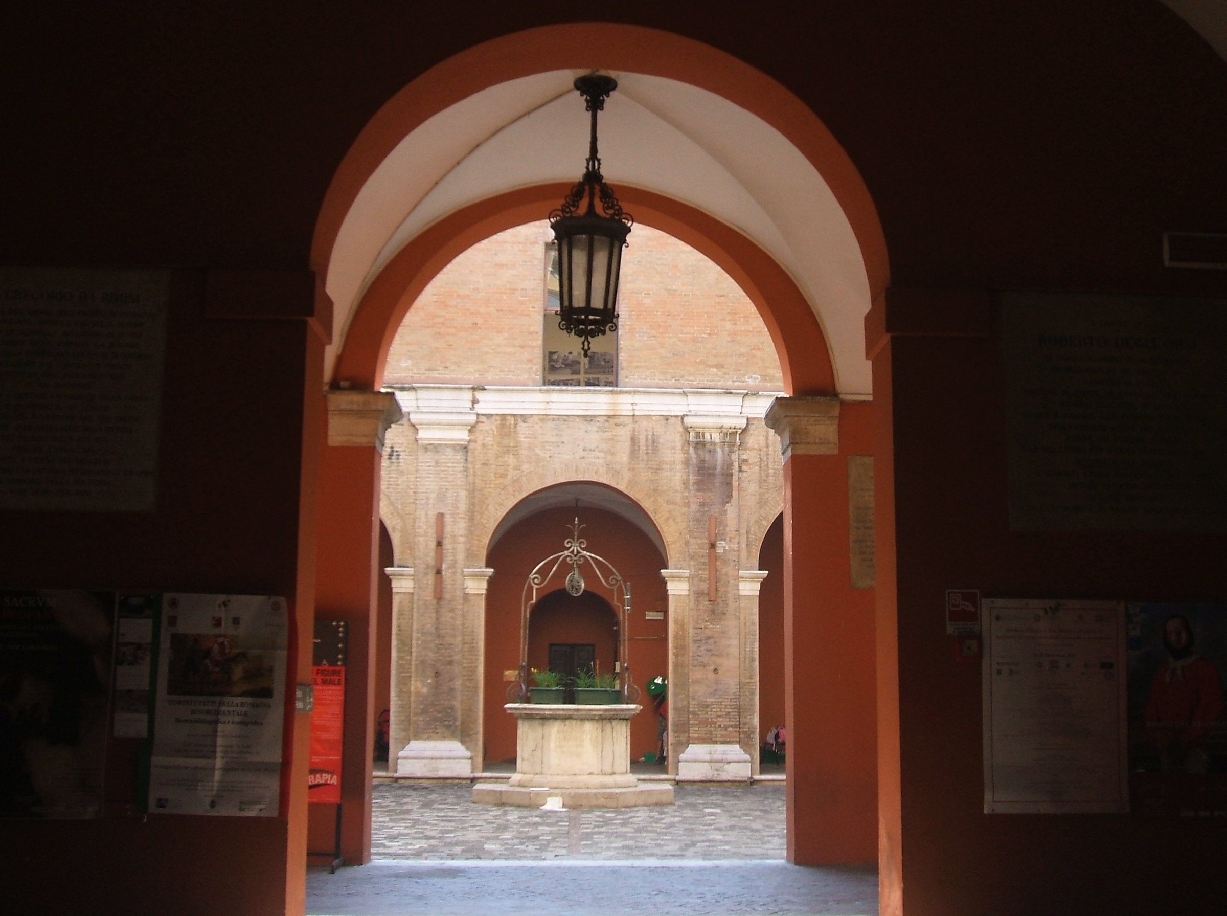 Palazzo Gambalunga entrance in Rimini, Italy